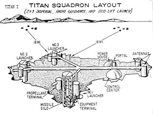 Layout of a Titan I squadron